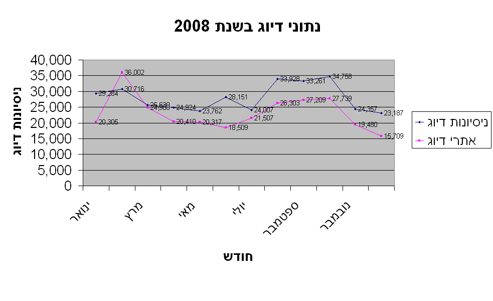 A graph showing Phishing attempts during January 2008 to Januray 2009. Based on information published by Anti-Phishing Working Group (APWG)